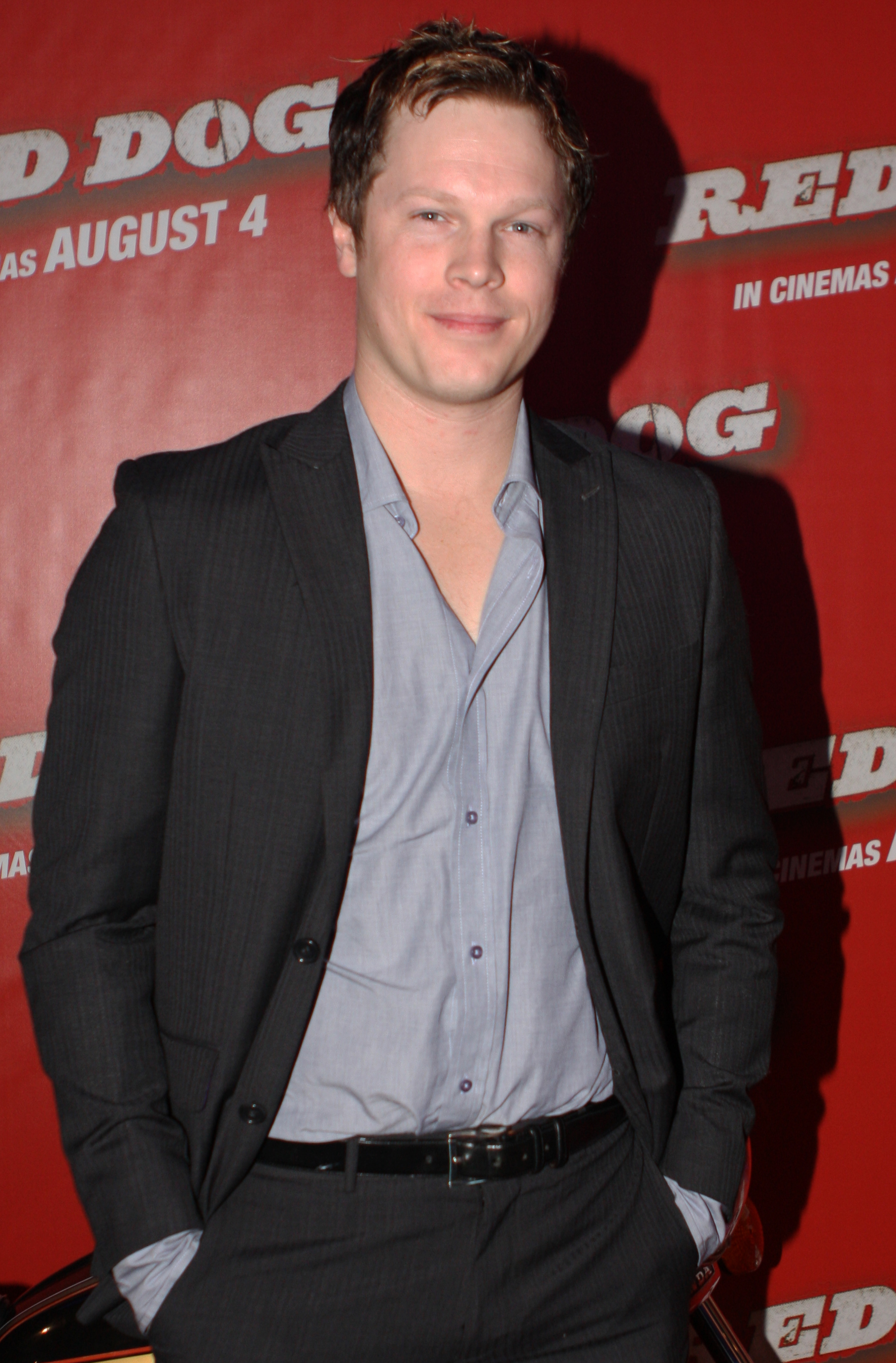 Luke Ford at the film premiere for Red Dog.